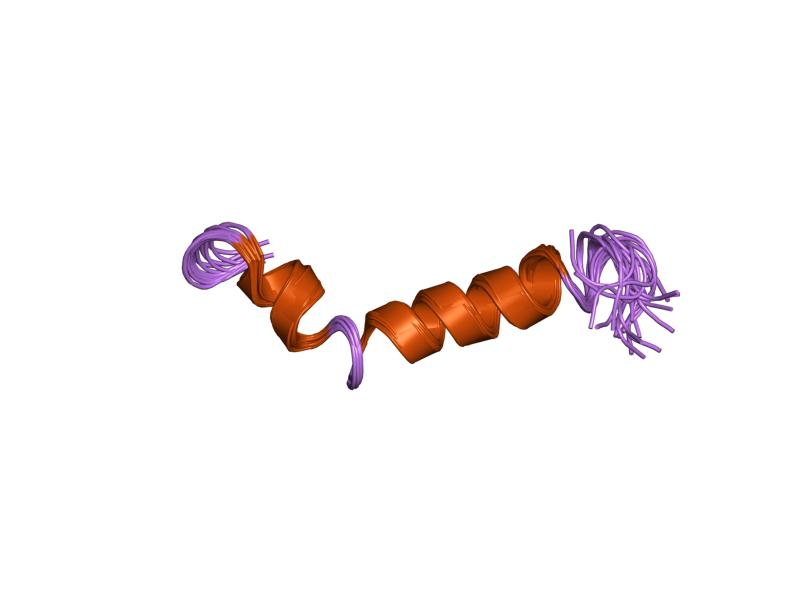 Cartoon representation of the molecular structure of protein registered with 1xc0 code.